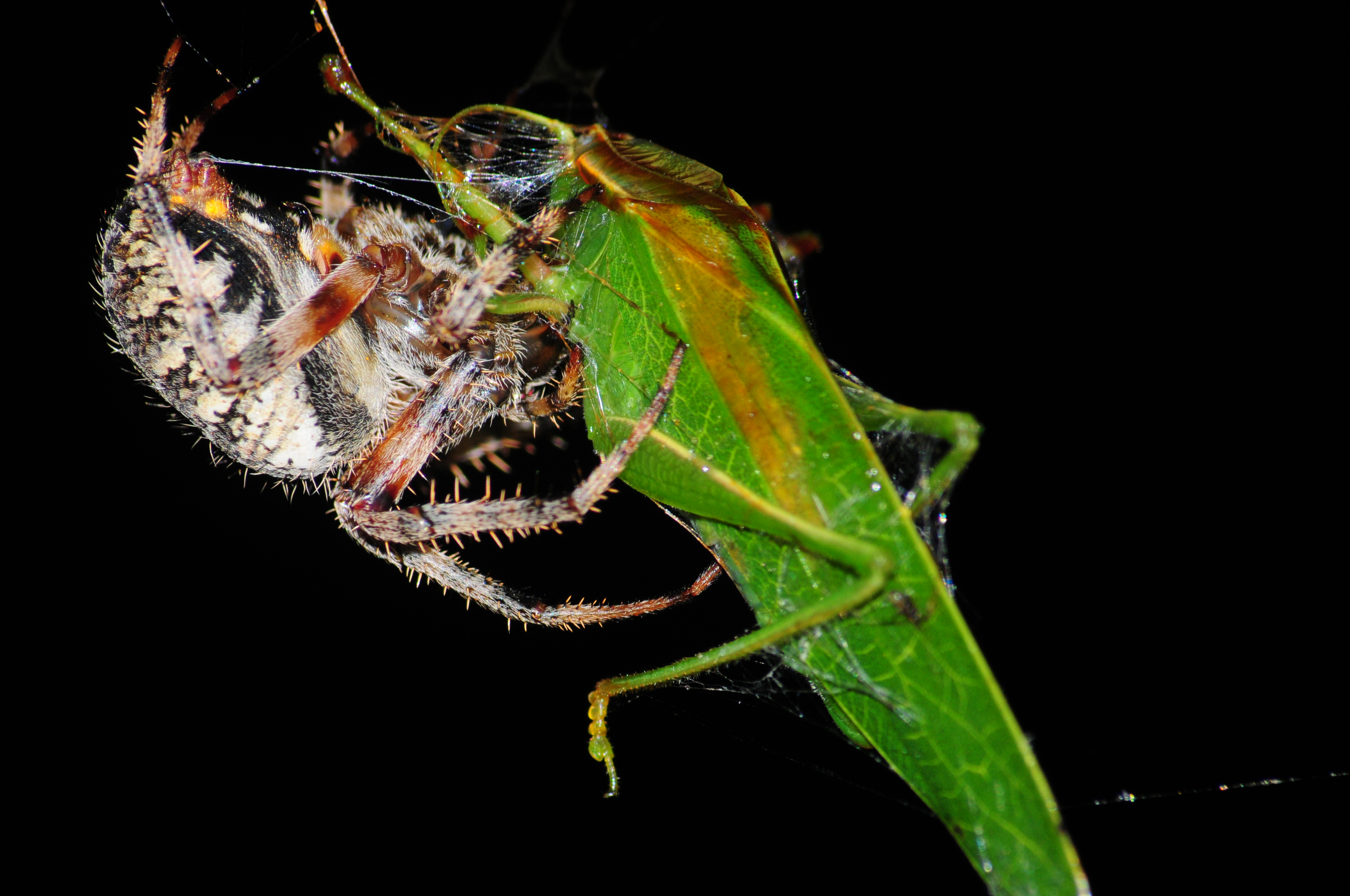 Spider holding on to its prey